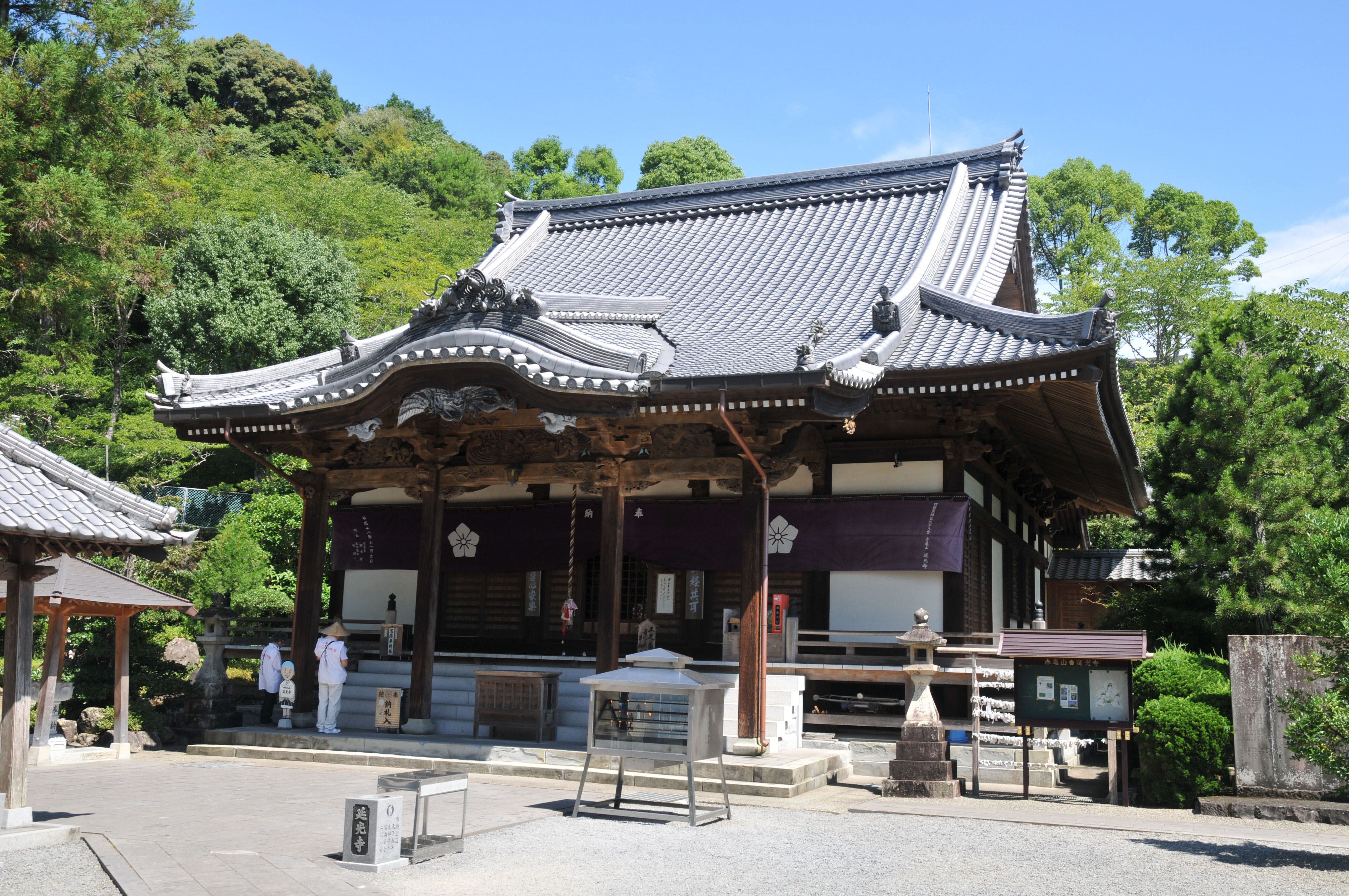 Main temple, Enkō-ji